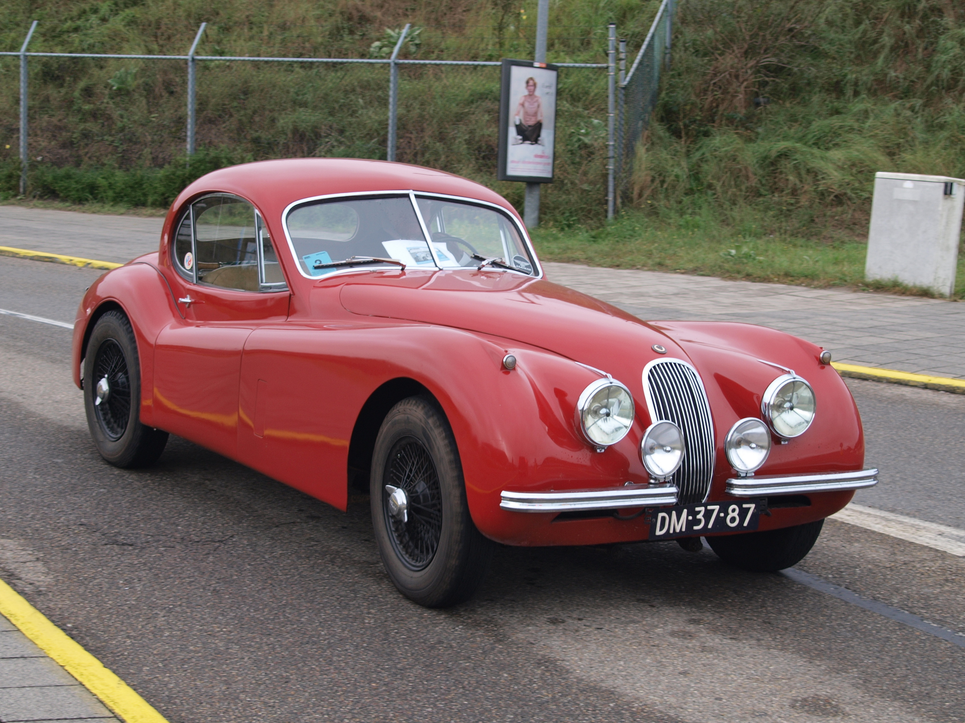 Photographed at the Nationaal Oldtimer Festival Zandvoort 2010, The Netherlands.